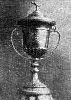 Trophy of Copa de Honor "Cusenier"